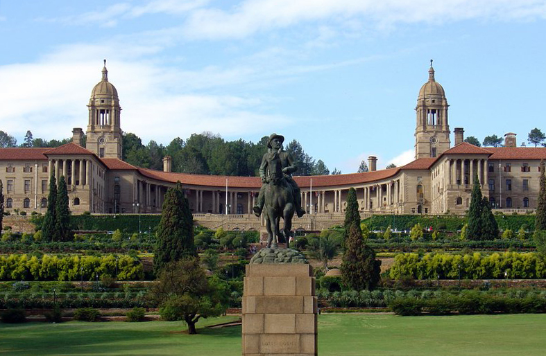 The Union Buildings in Pretoria: seat of the South African government. This media shows a South African Protected Site with SAHRA file reference 9/2/258/0067See also: External entry in South African Heritage Resource Agency database.